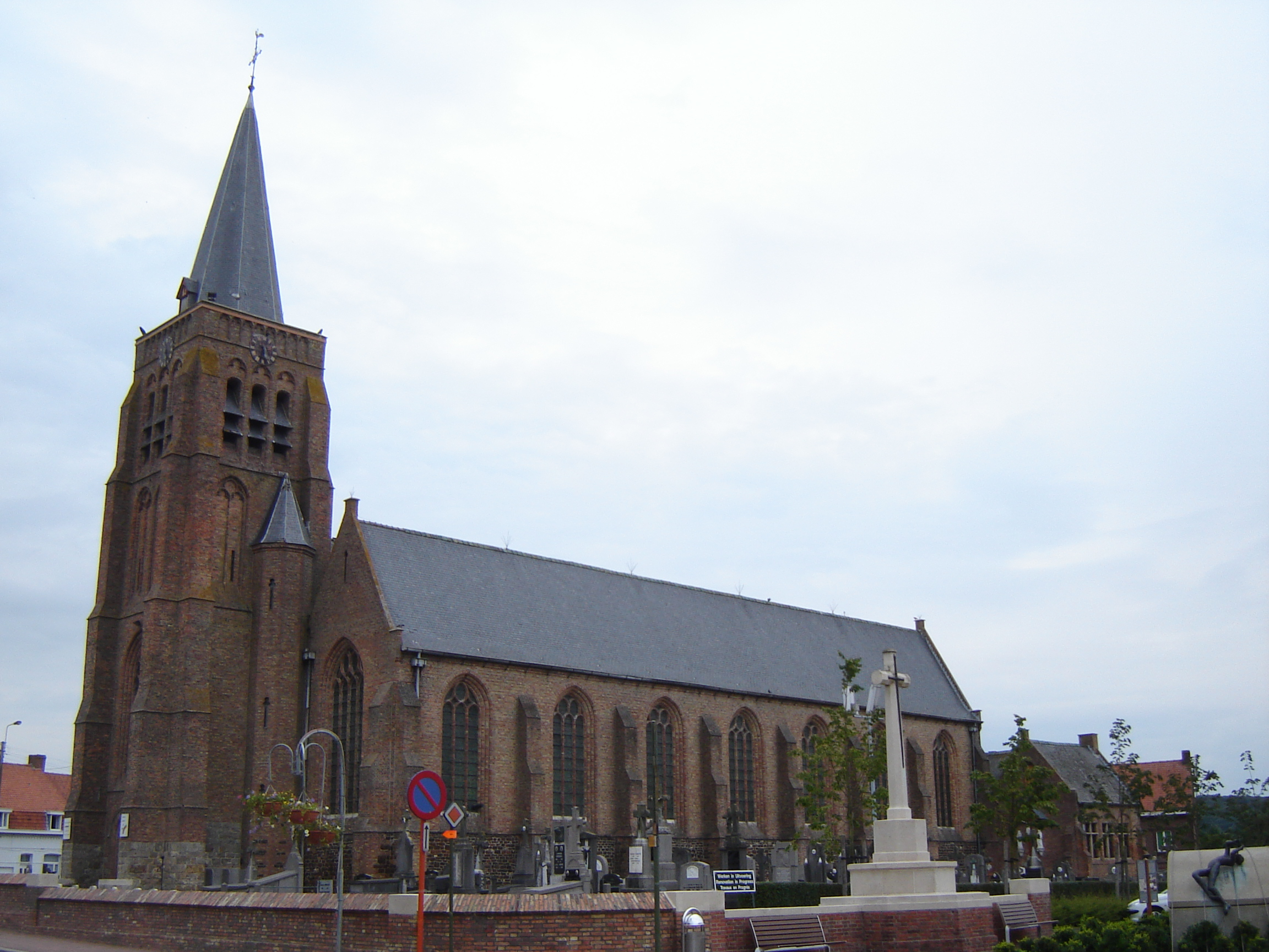 Church of Saint John Baptist in Dranouter, Heuvelland, West Flanders, Belgium.